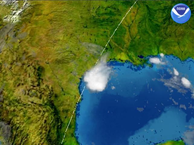 Tropical Depression Bertha near Texas landfall